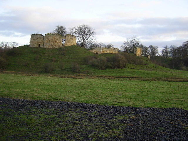 Ruins of Mitford Castle